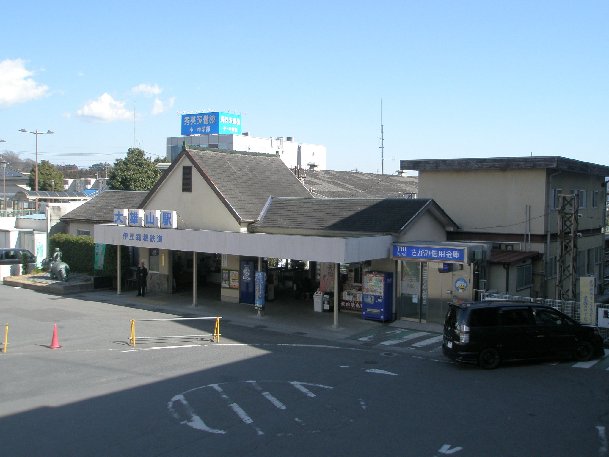 Daiyūzan Station, on the Izuhakone Daiyūzan Line, Minamiashgara, Kanagawa